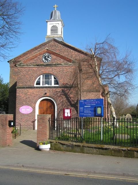 St Matthew's parish church, Crewe Road, Haslington, Cheshire, seen from the west